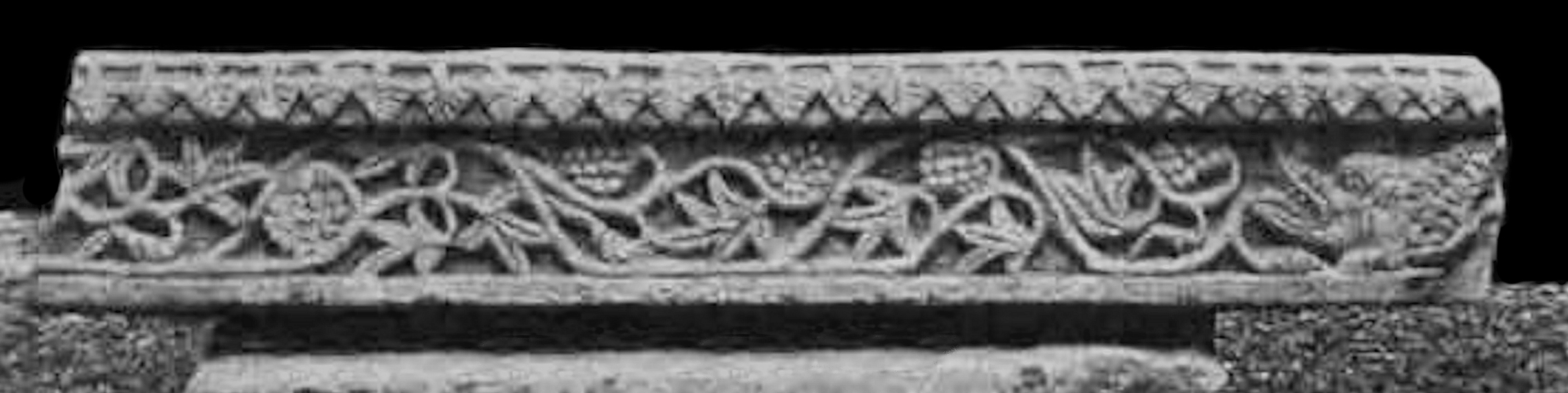 Pataliputra Kumrahar. Coping stone of a railing with vines creeps and grapes. The former is being swallowed by a Makara. To be compared to: 2nd century Roman Gandhara vine scrolls.